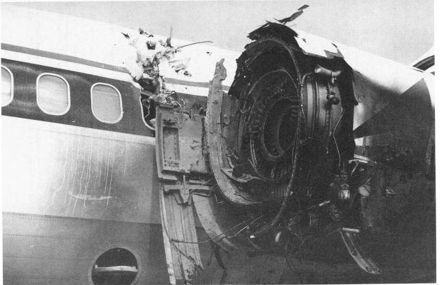 Delta Air Lines Flight 1288 #1 Engine during NTSB investigation